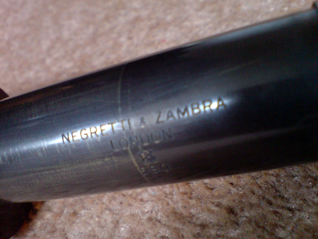 Photograph of Negretti Zambra telescope issued by British military. Detail showing engraving of company name.